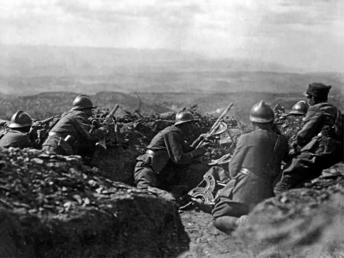 Greek soldiers near Afyonkarahisar on 29 August 1922 (16 August in the Old Calendar)